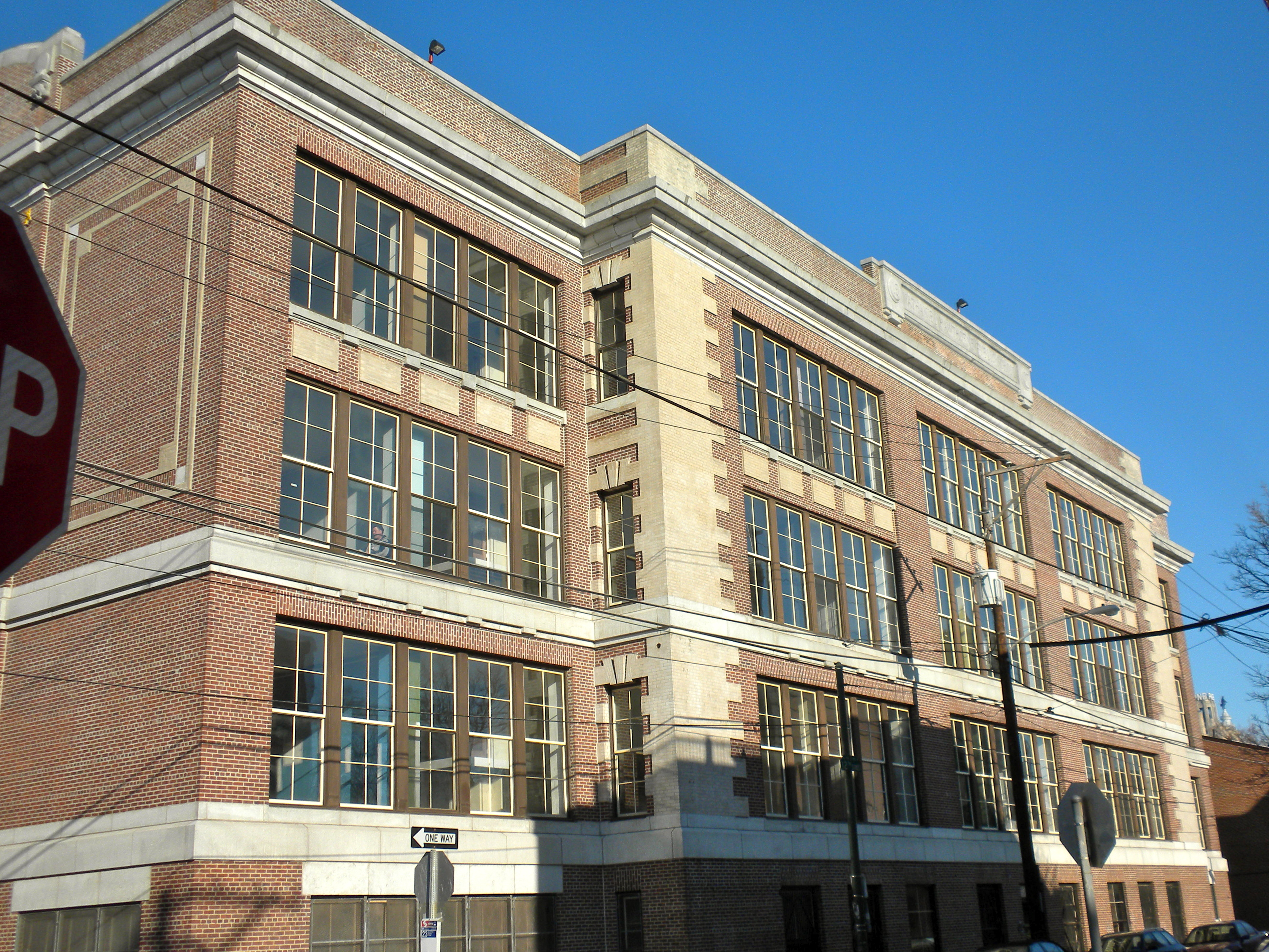 Nathaniel Hawthorne School, on NRHP since December 4, 1986. 712 South 12th Street in Hawthorne neighborhood of Philadelphia